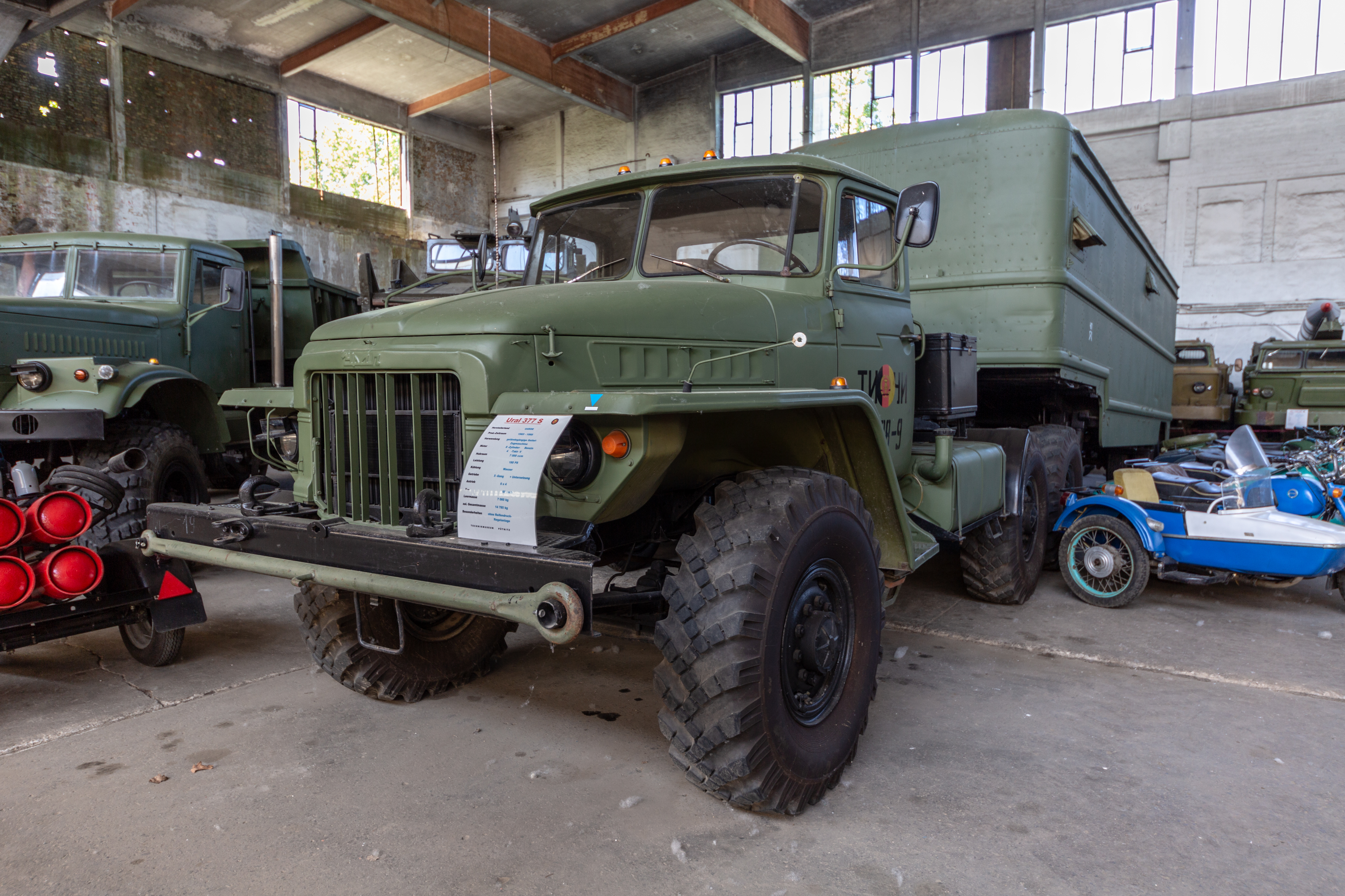 Pfingsttreffen Pütnitz 2018